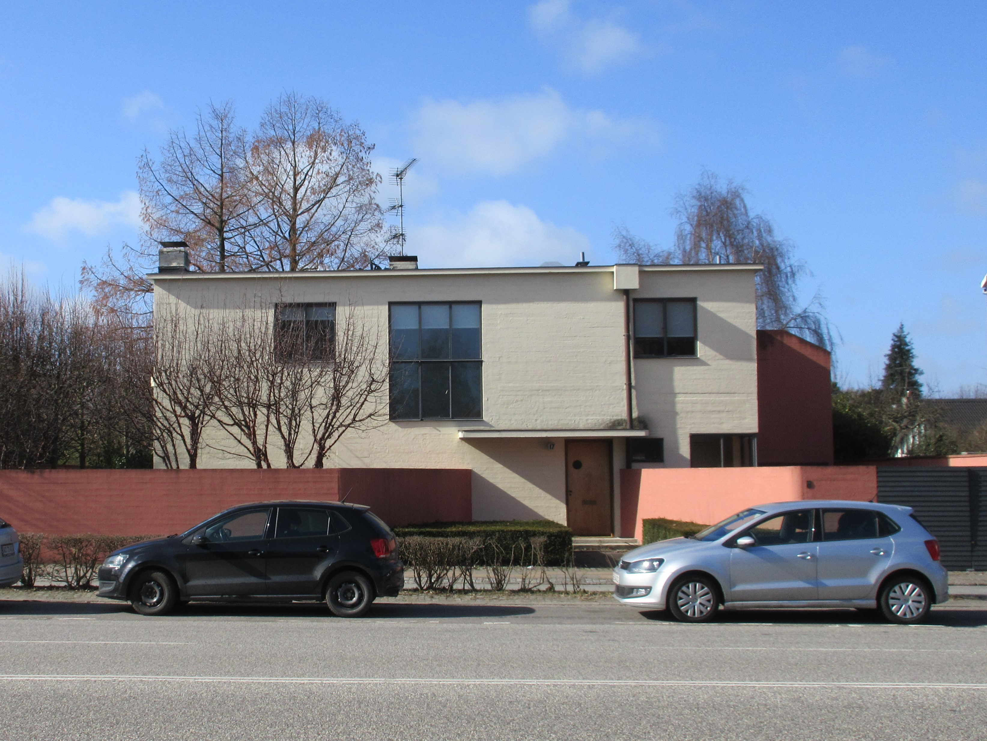 Bernstorffsvej 17 in Gentofte Municipality, Copenhagen, Denmark